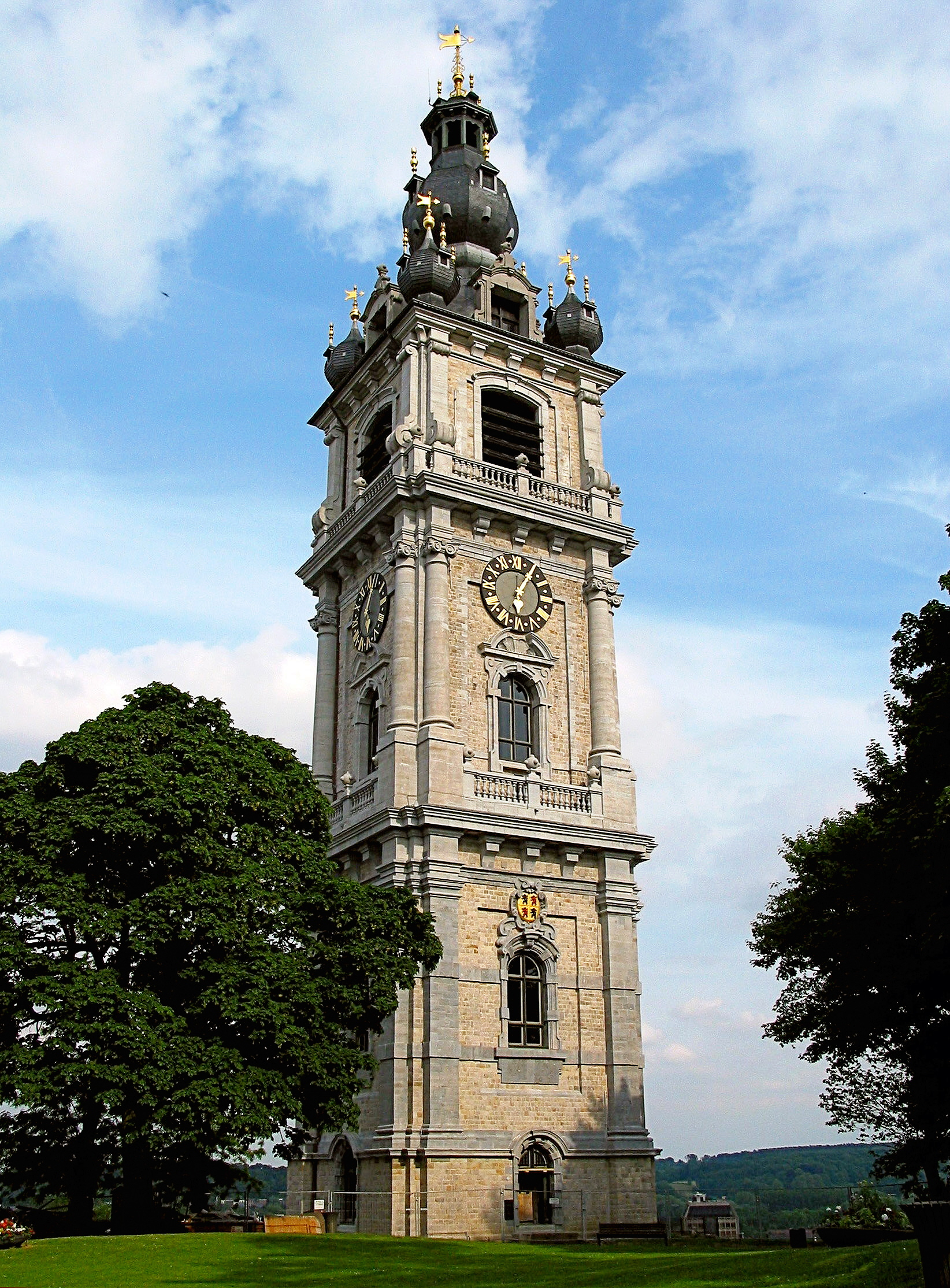 Mons (Belgium), view on the belfry (1661-1669) and the garden of the castle.